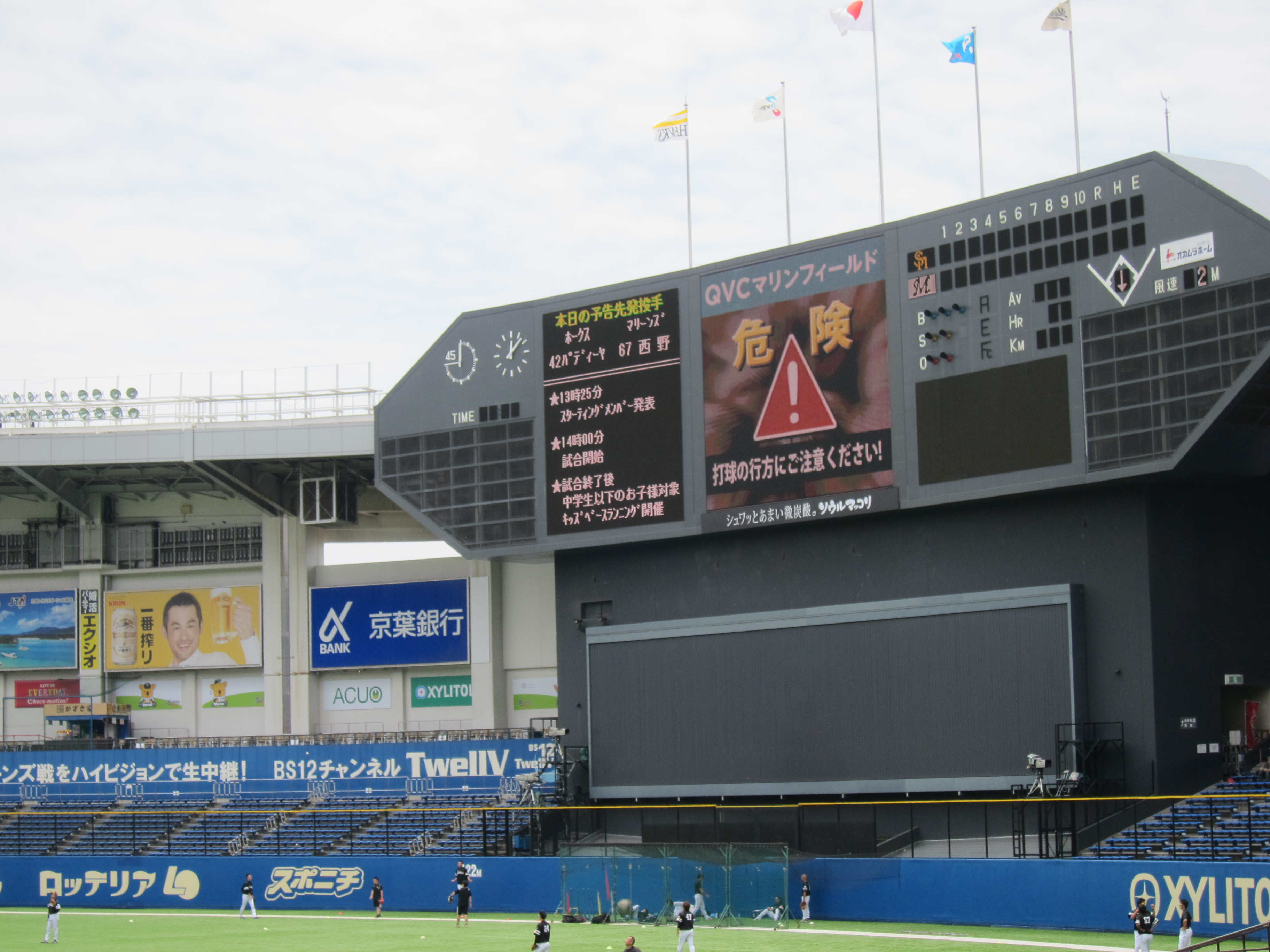 QVC Marine Stadium for the Chiba Lotte Marines vs the Fukuoka Softbank Hawks [1]